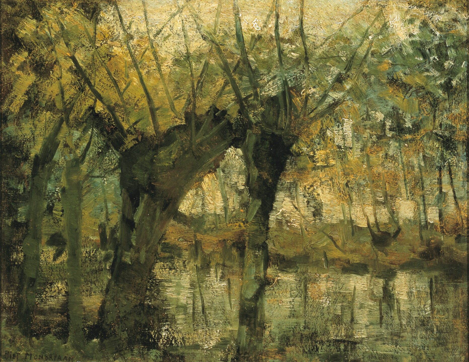 Willow grove: impression light and shadowlabel QS:Len,"willow grove: impression light and shadow"label QS:Lfr,"Saulaie : Impression de lumière et d'ombre"